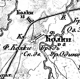 Kolky on the map "Военно-топографическая карта Российской Империи" (known as "Schubert's map"), XX 5, 1866-1887 (issued in 1913).